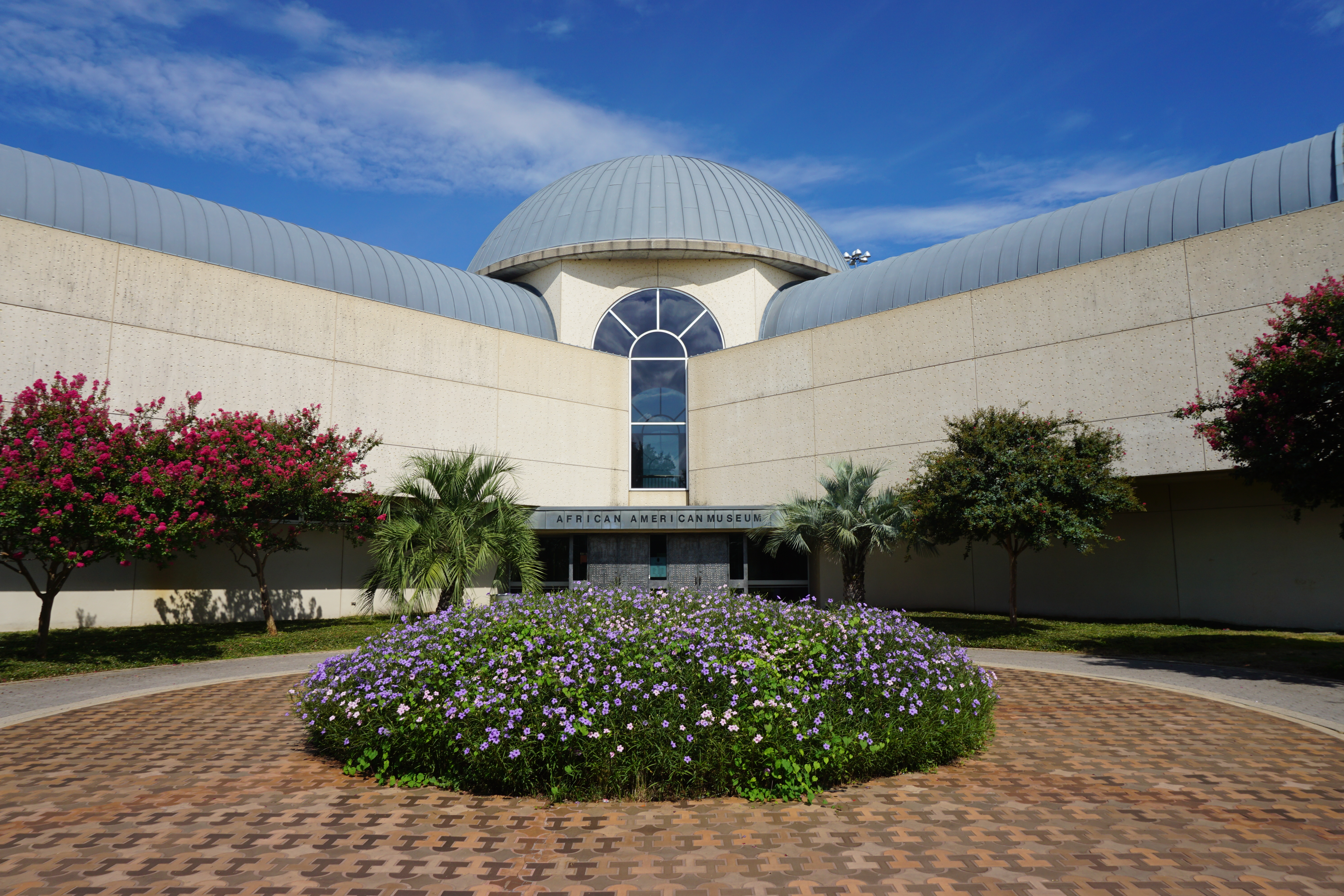 The exterior of the African American Museum at Fair Park in Dallas, Texas (United States).